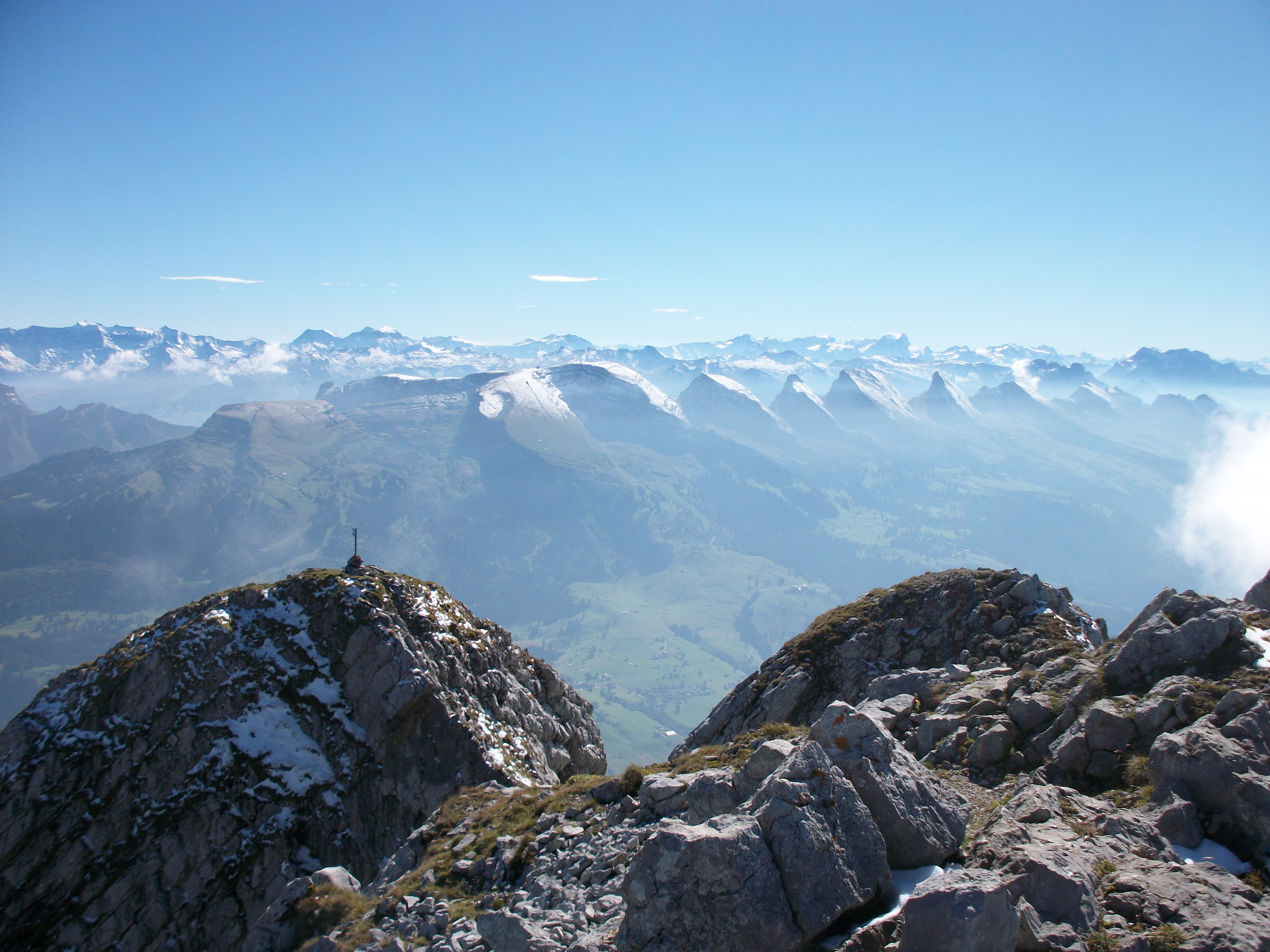 Summit of Wildhuser Schafberg and Churfirsten mountains